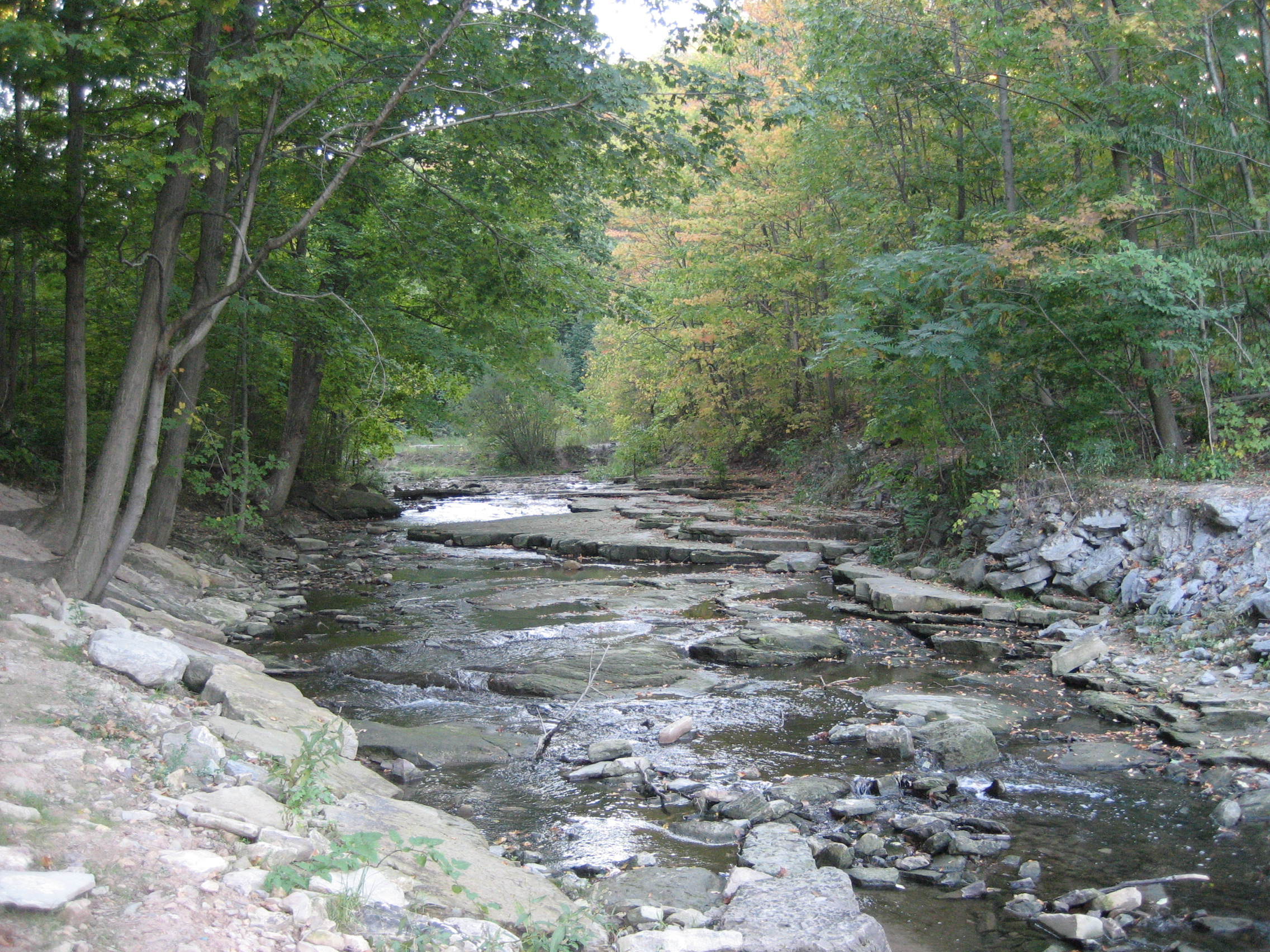 Red Hill Creek, King's Forest Park, looking South, Hamilton